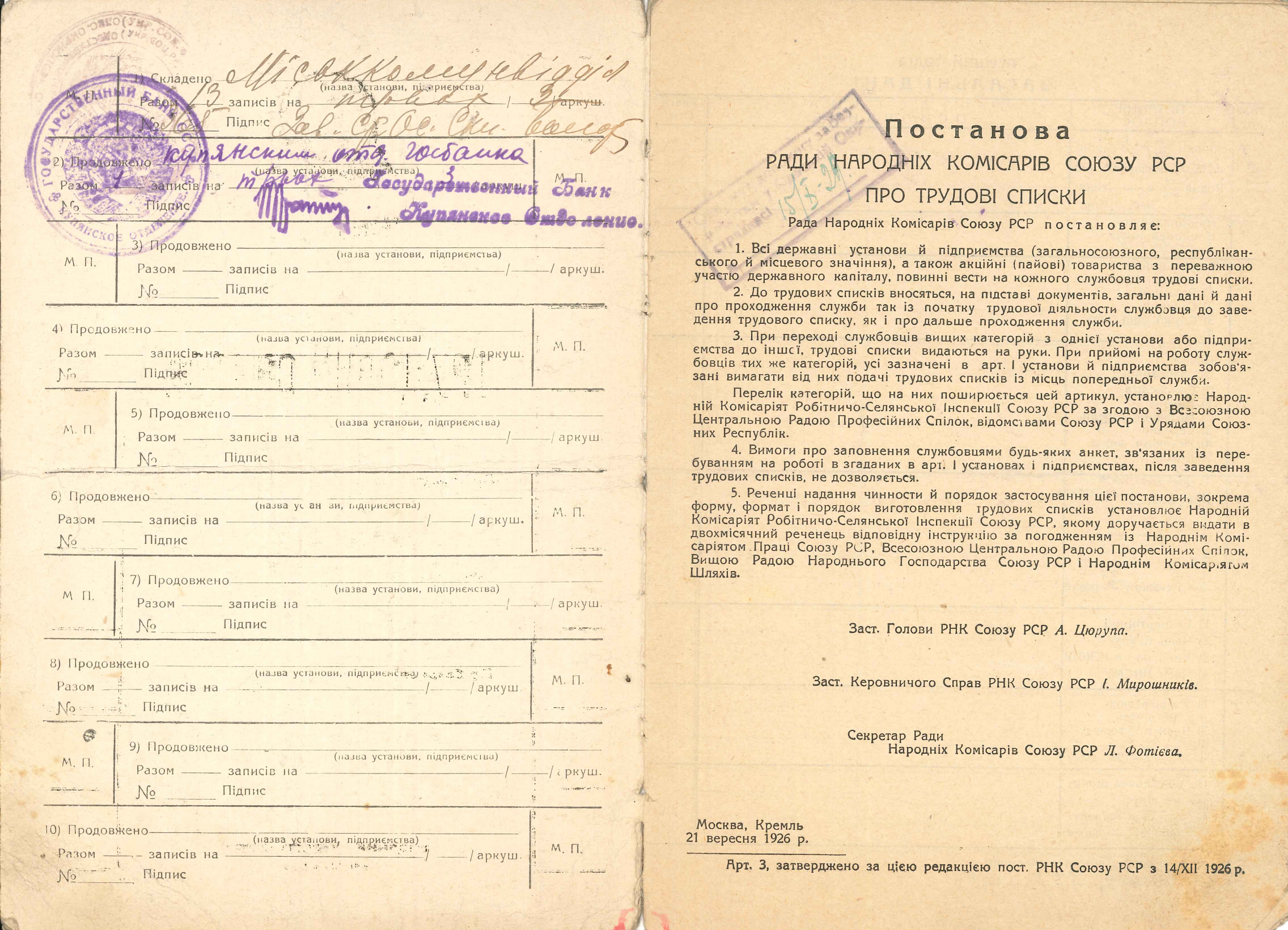 The Ukrainian Edition of the Soviet Employment Record List (ru Трудовой список/ uа Трудовий список) of the 1926 series. The original document was issued on June, 1, 1930 in Odessa by the Kupyansk regional office of the State bank of the USSR in the name of its retired manager, Vladimir Ivanovich Chernikov (27.06.1868 - 05.06.1931)